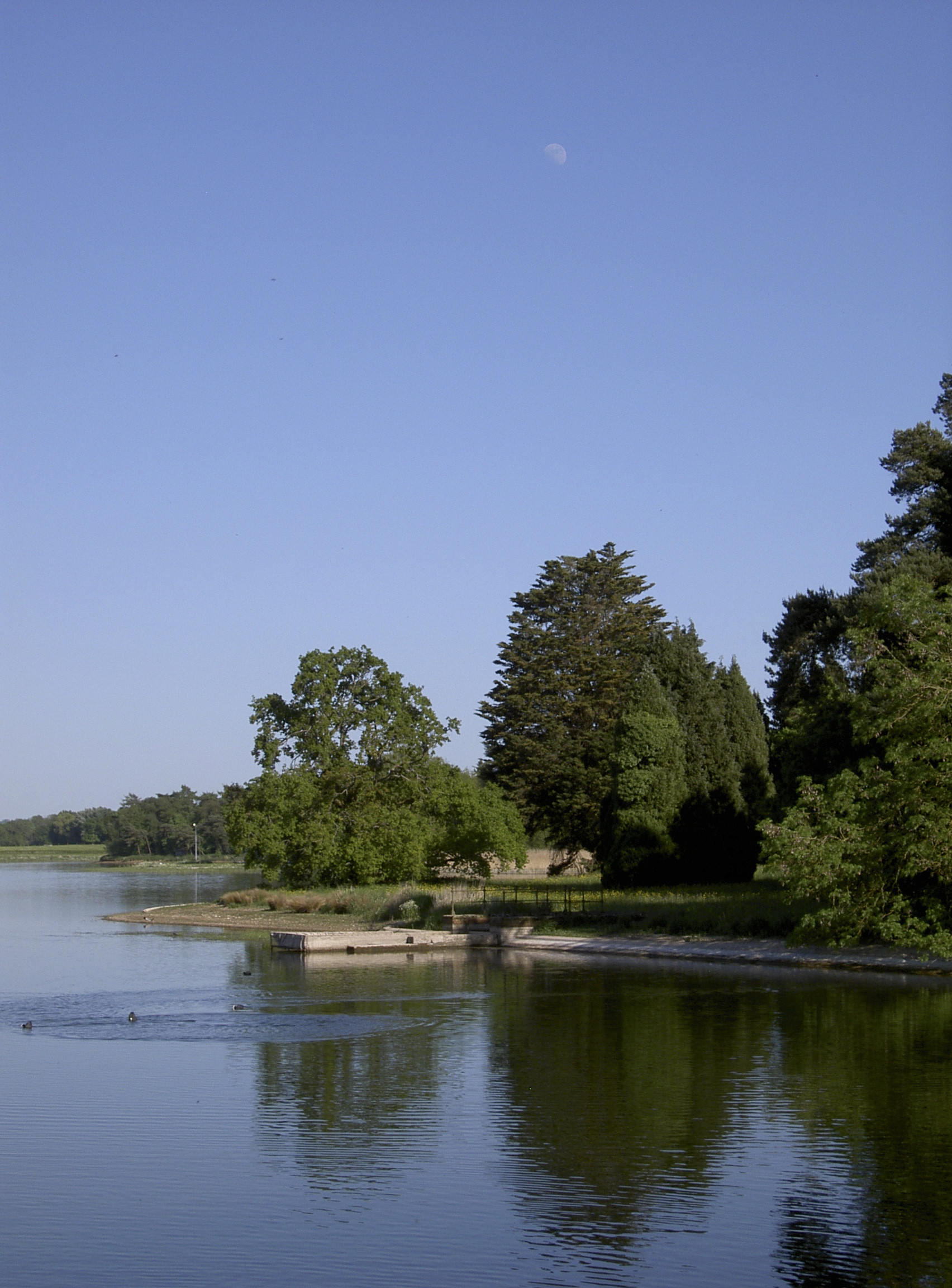 Moon over Blagdon Lake